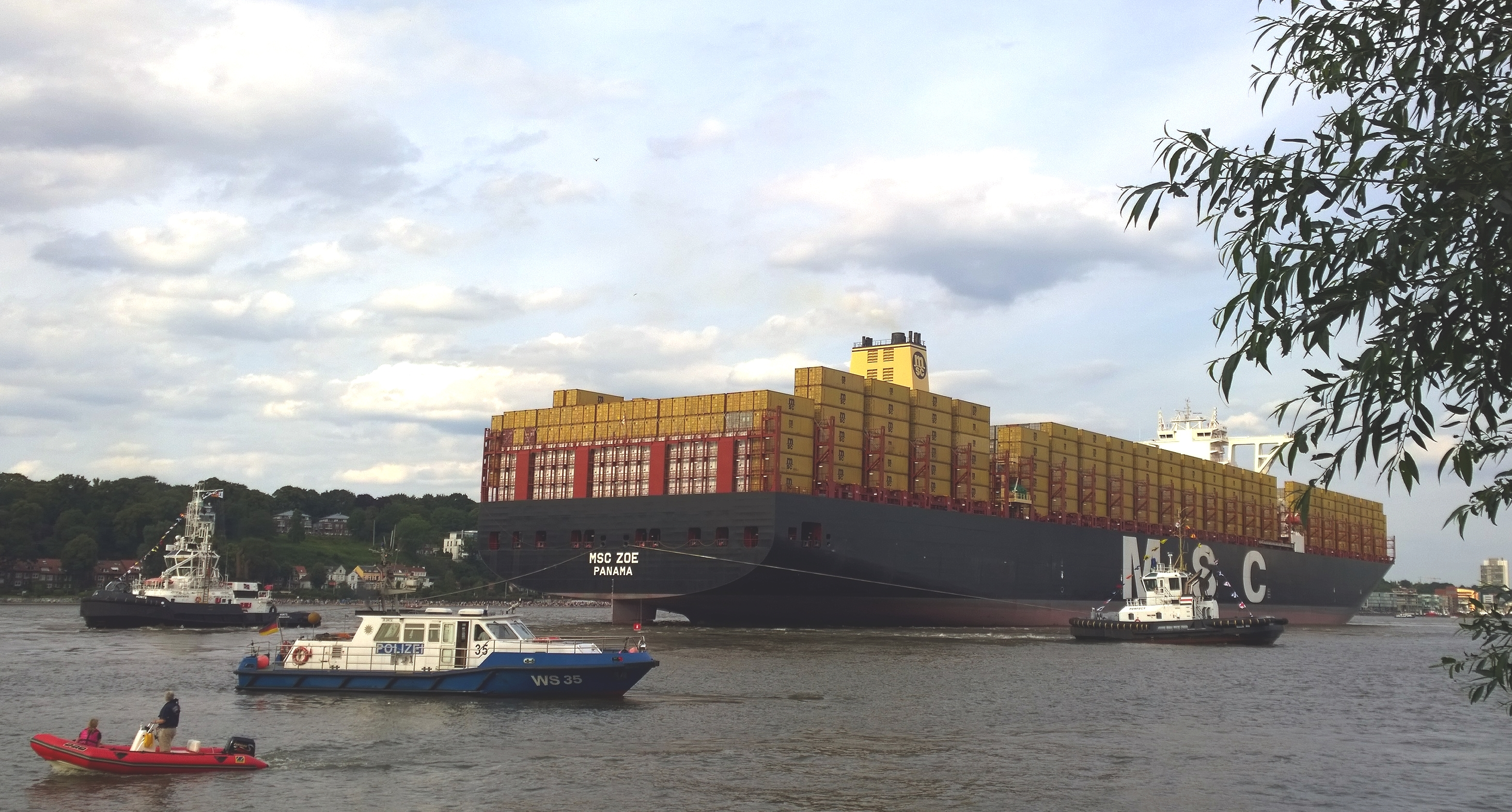 Container ship MSC Zoe on the river Elbe in front of Blankenese. On the port side of the container ship the tug "Hunte" by the URAG Unterweser shipping company and on the starboard side of the ship the tug "Perfect" by the shipping company Lütgens & Reimers.